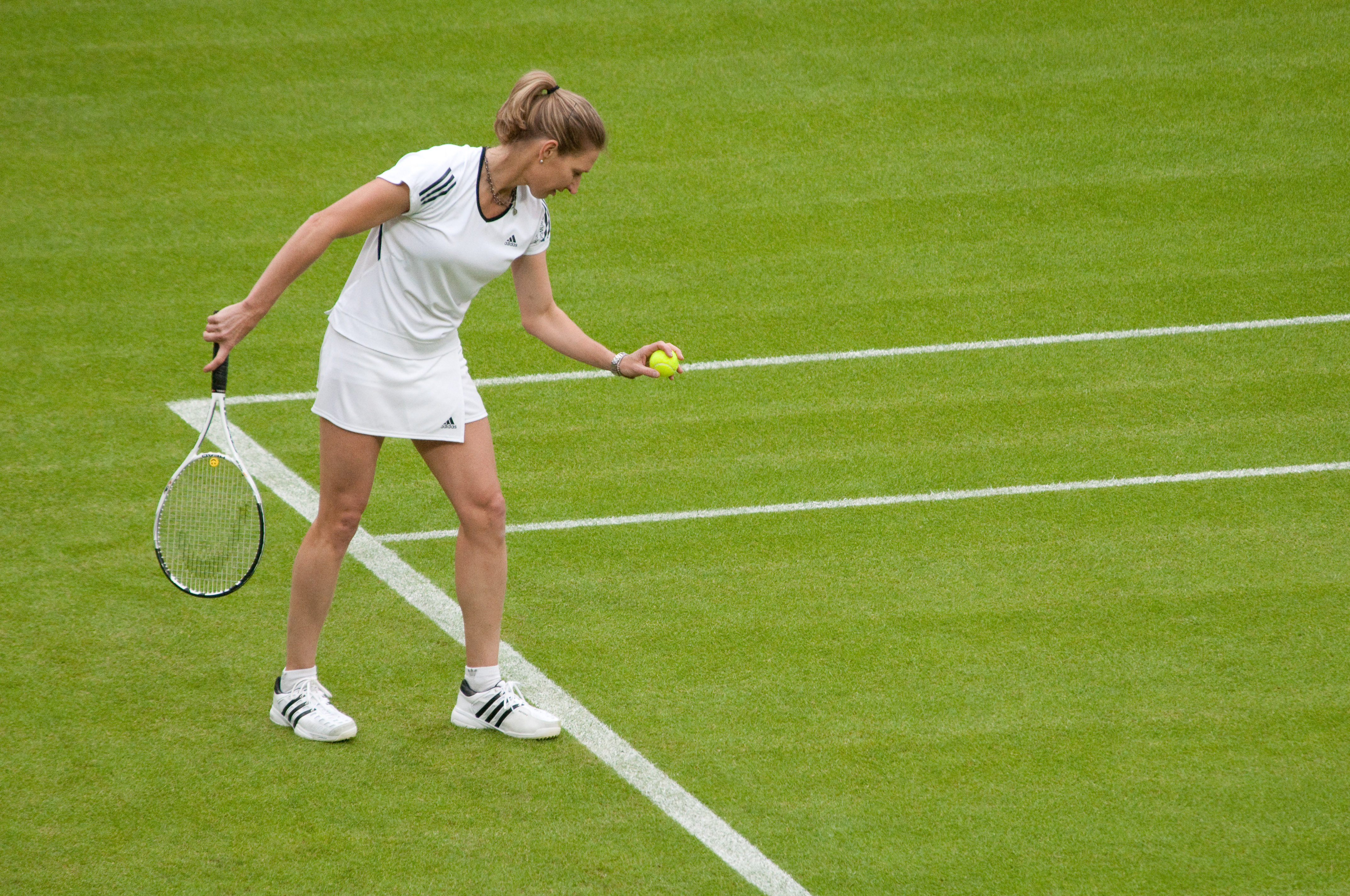 Former World No. 1 German female tennis player Steffi Graf during the special event “A Centre Court Celebration” (event was designed to test a new roof and air management system with live tennis in front of a capacity crowd of 15,000 – Andre Agassi and Steffi Graf played vs. Tim Henman and Kim Clijsters)